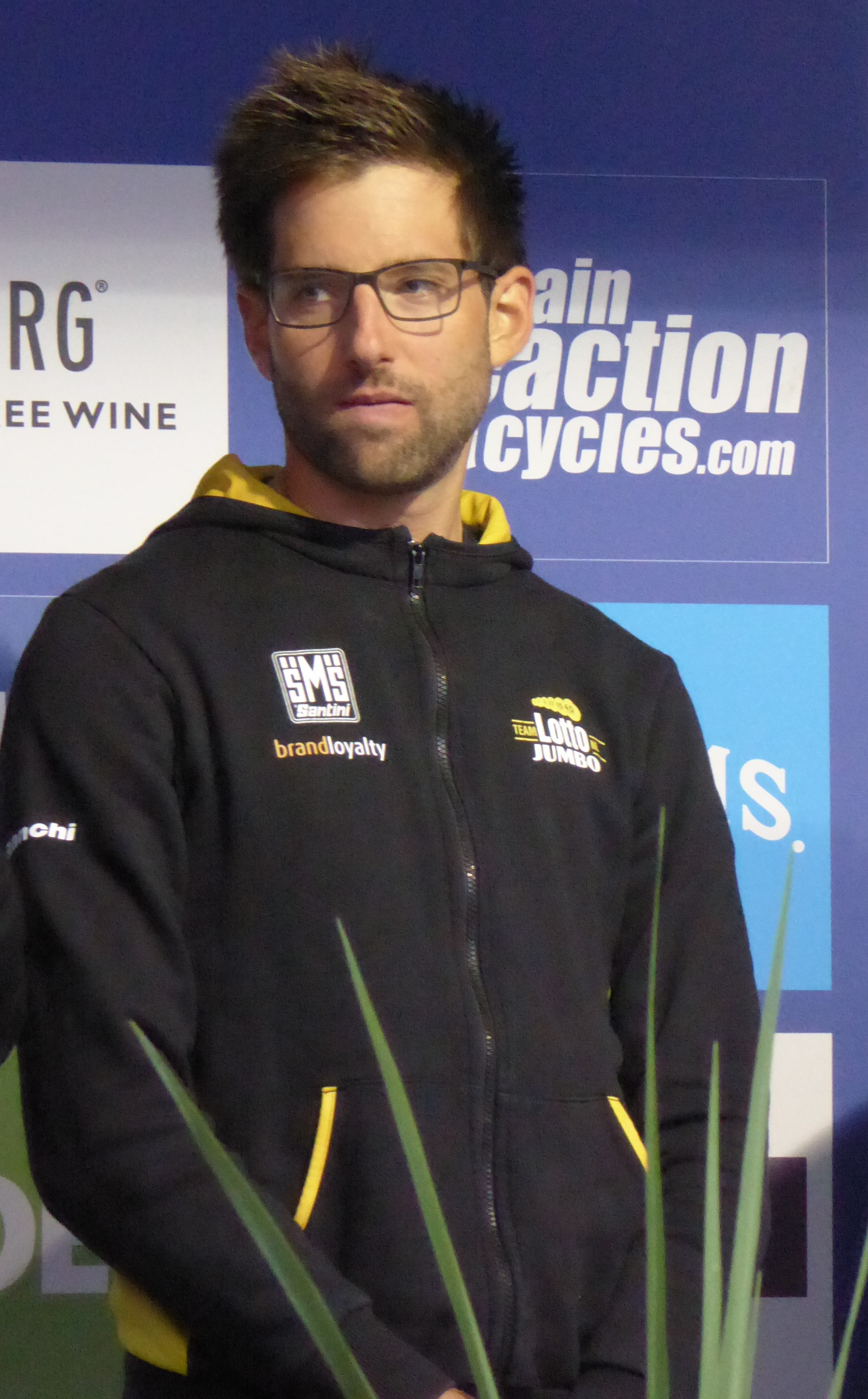 Tom Leezer (Team LottoNL-Jumbo), pictured at the 2016 Tour of Britain team presentation in Glasgow on 3 September 2016.